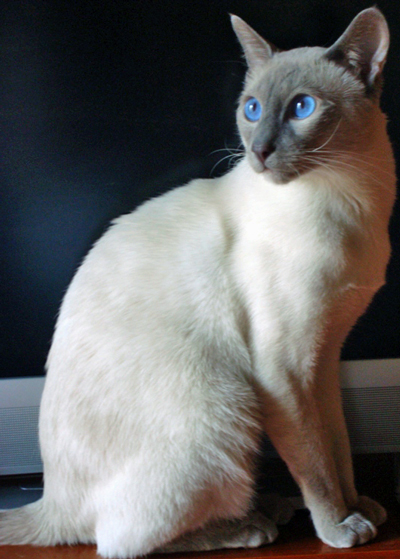 Sandypoints Chakri, Lilac Point Thai cat.(old-style Siamese)